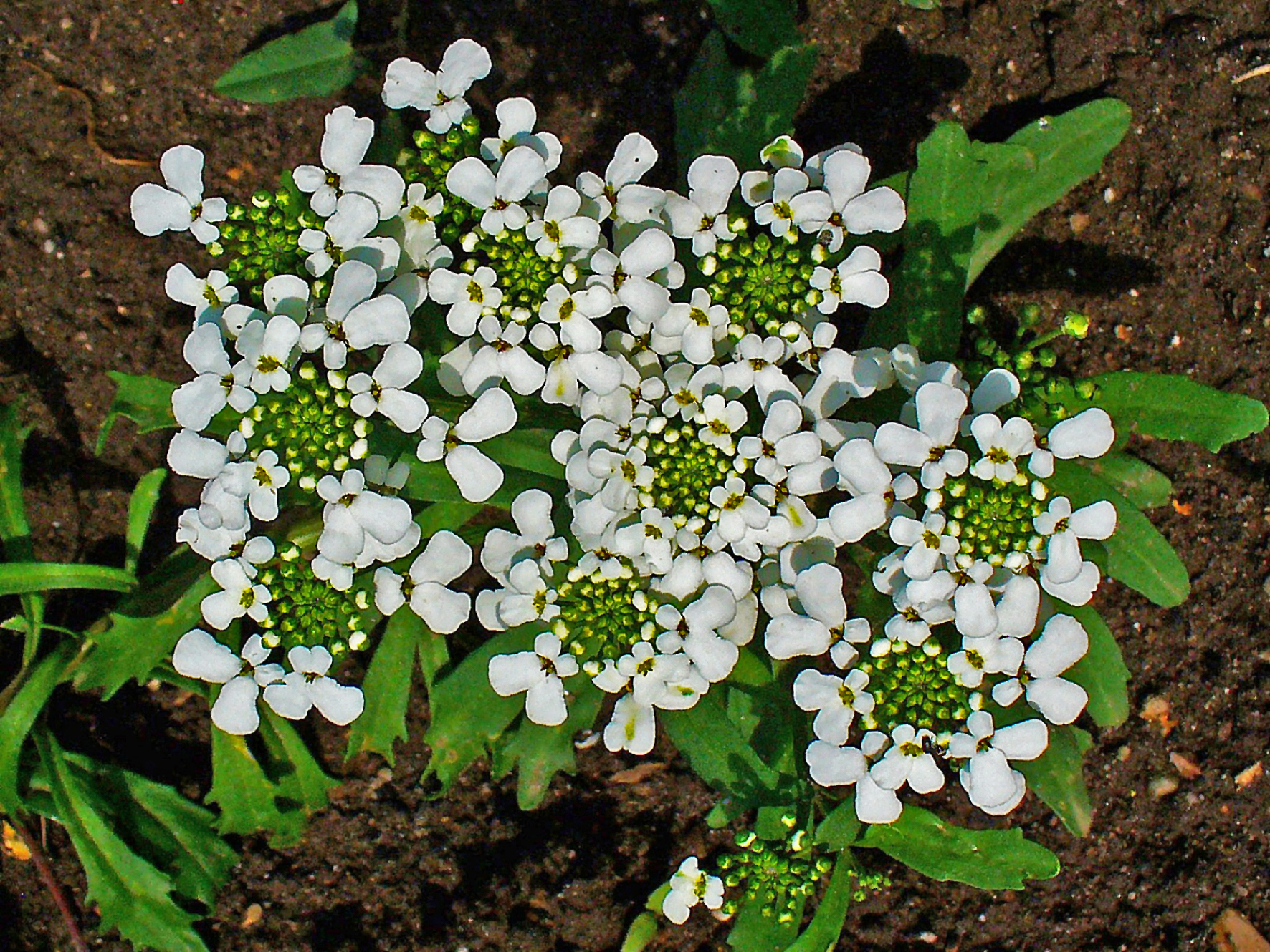 Iberis amara, Brassicaceae, Bitter Candytuft, inflorescences. The dried, ripe seeds are used in homeopathy as remedy: Iberis amara (Iber.)